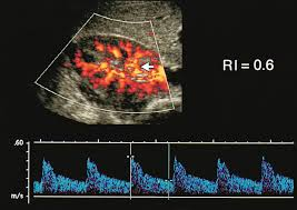 Normal resistive index in 25-year-old healthy woman. Color Doppler sonogram is used to identify interlobar artery (arrow); waveform is maximized using lowest pulse repetition frequency possible.